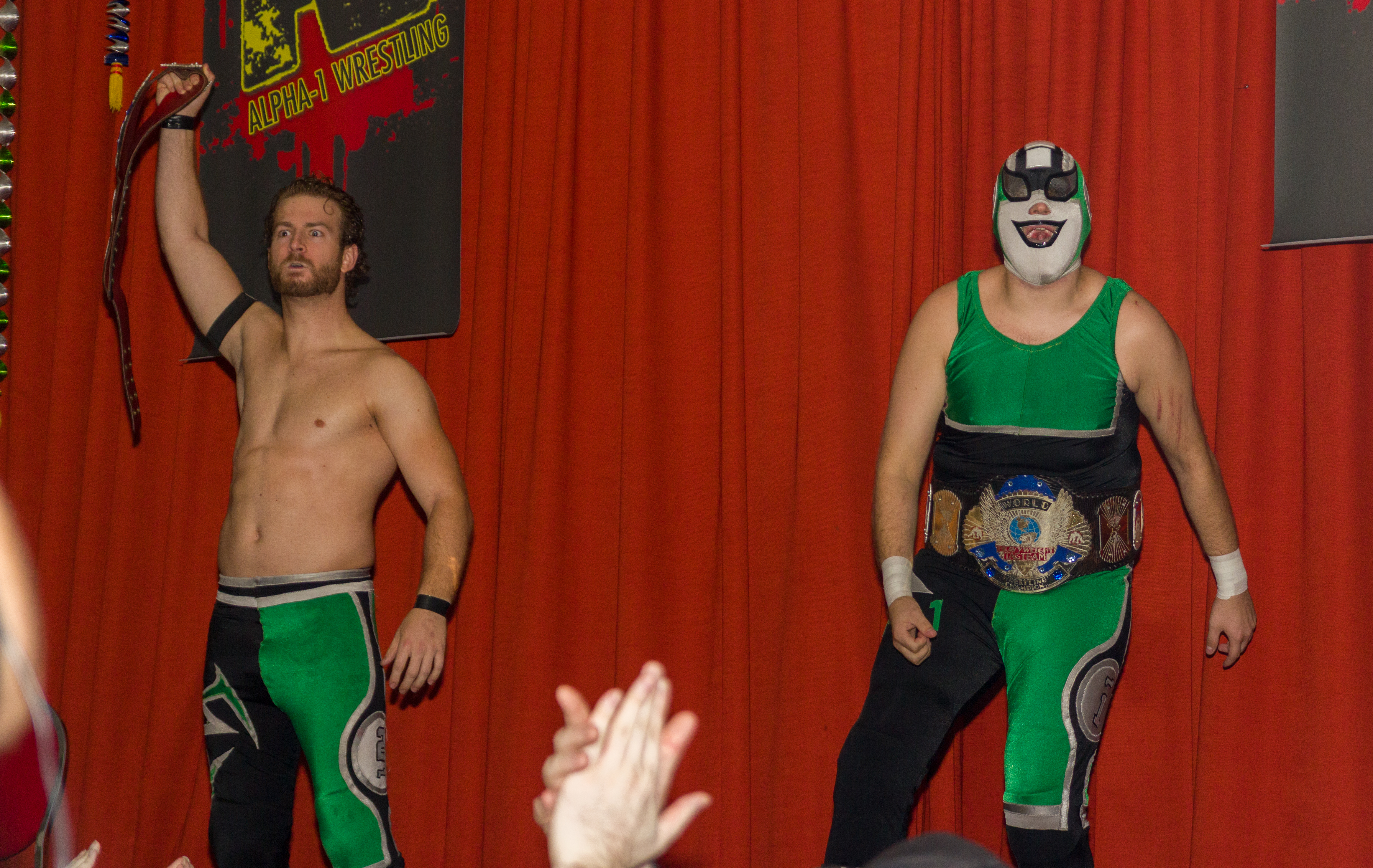 The Super Smash Brothers (Stu Grayson and Player Uno) making their ring entrance at an Alpha-1 show in Hamilton, ON with the Alpha-1 Tag championship belt in their possession